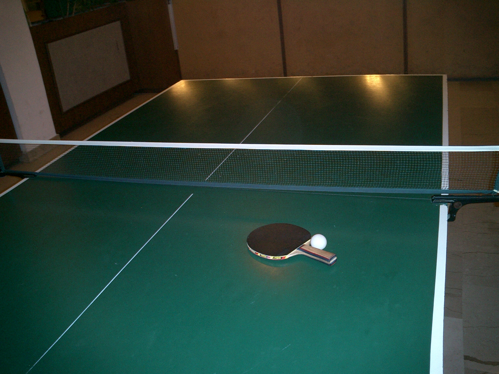 Table tennis equipment for one player: racquet, ball and table (for a standard game)